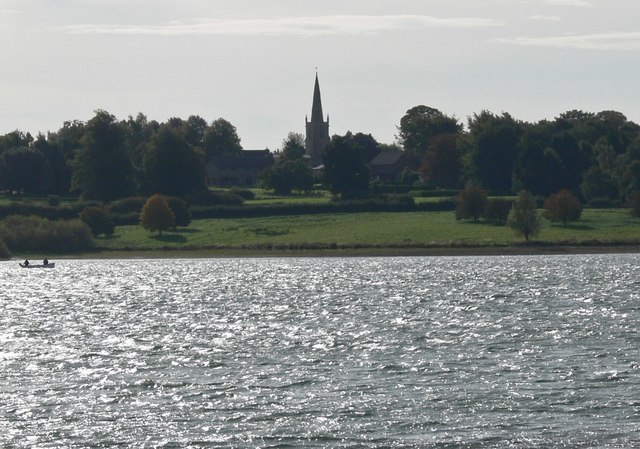 View towards St. Mary's Church in Edith Weston Looking south across Rutland Water, from the Hambleton Peninsula.